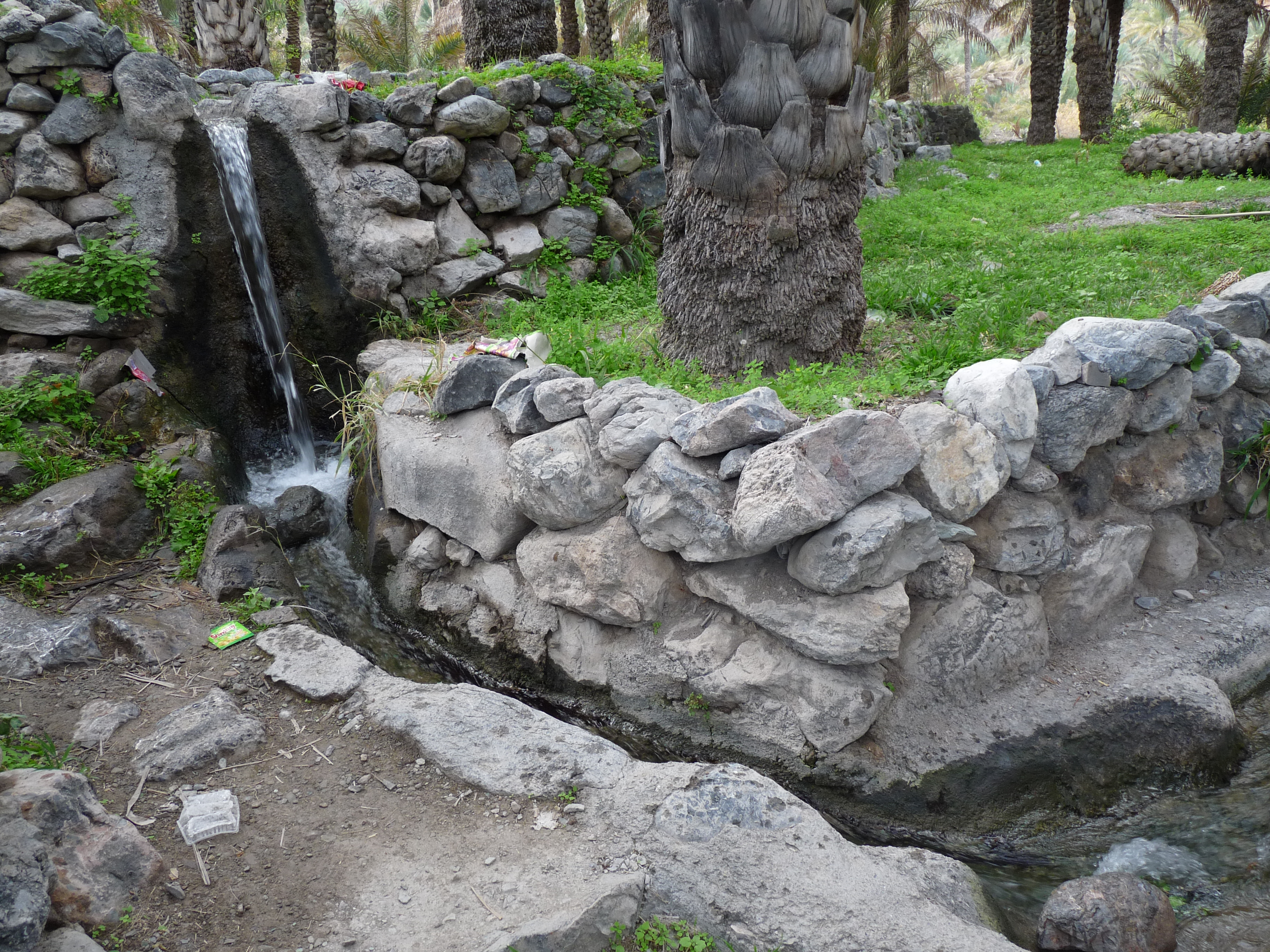 Falaj in Bilad Sayt (Oman)